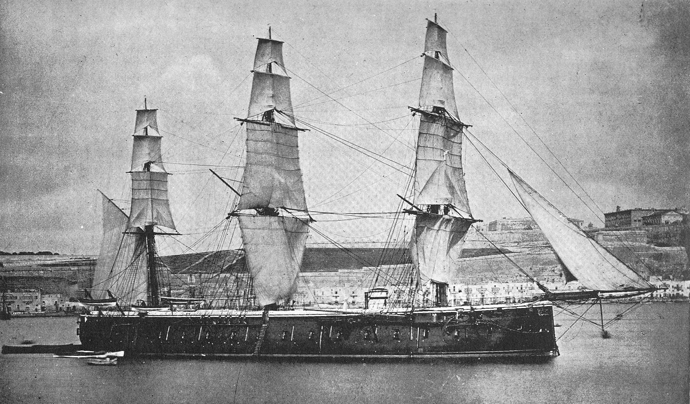 British ironclad battleship Royal Oak as she appeared after being rearmed in 1867